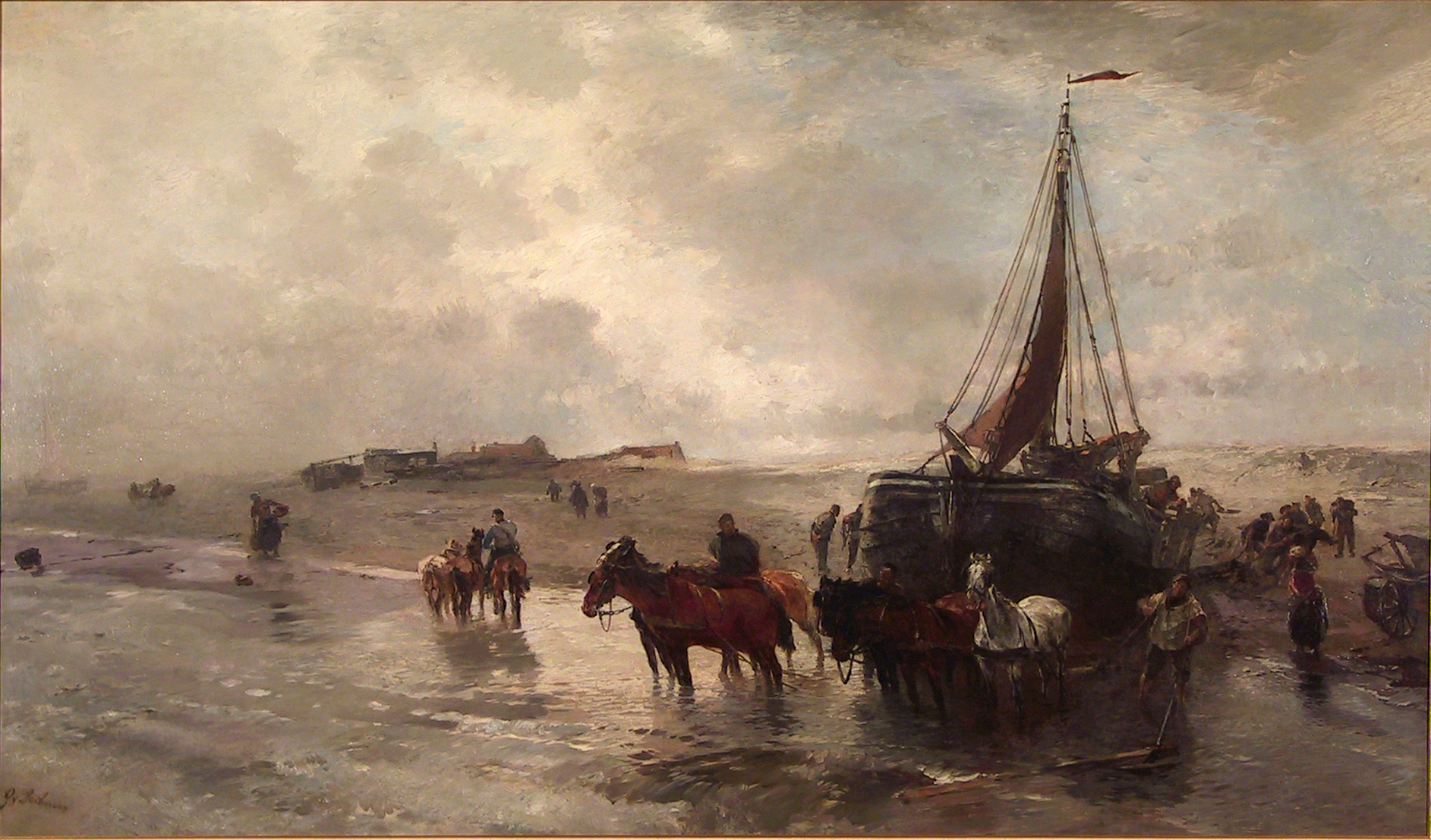 This is an oil painting by the baltic-german painter Gregor von Bochmann (1850 - 1930). It is dated 1888 and entitled "Flottmachen eines Fischebootes in Holland" (Launching a fisher boat in Holland). It is number B0230 in the work catalog. The photograph was taken in 2001. The painting belongs to a private collection.